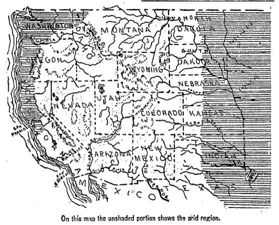 Drawing shows what were termed the "arid regions" of the Western United States in 1893. Drawing was originally printed in the Los Angeles Times on October 11, 1893.